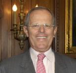 Photo of former Peruvian Minister of Economy Pedro Pablo Kuczynski